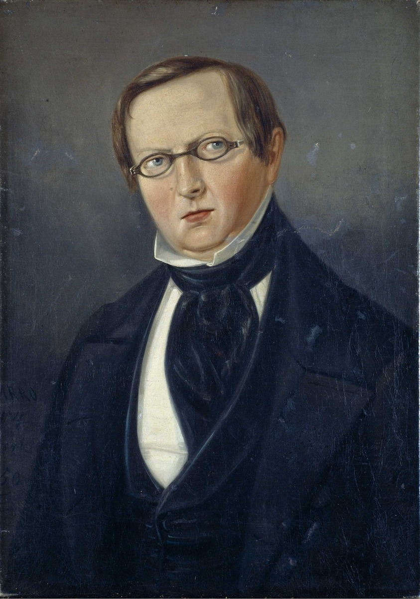 Norwegian jurist and auditor general Peder Krabbe Gaarder (1814–83) in a painting by Harro Haring (1798–1870) who lived in Christiania/Oslo in 1850. Thus, the painting may be made in 1850 when Peder was 36 years old.